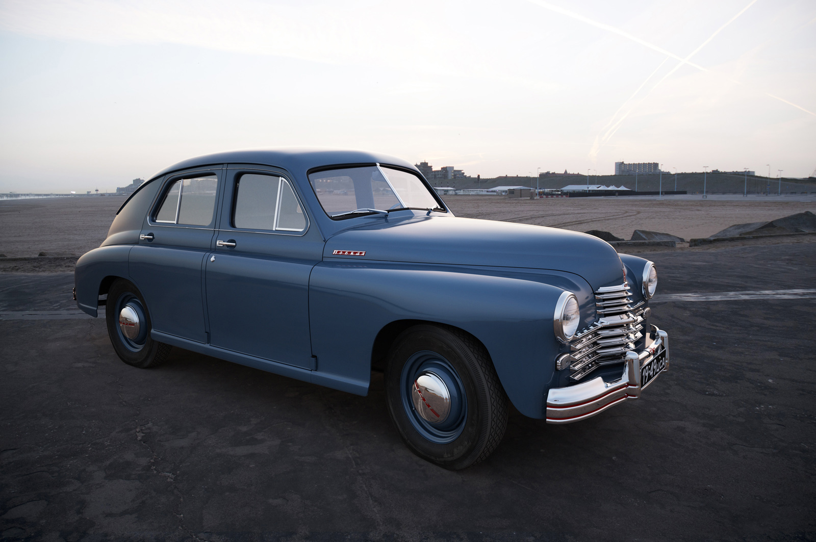 3d model, 3dsmax, v-ray